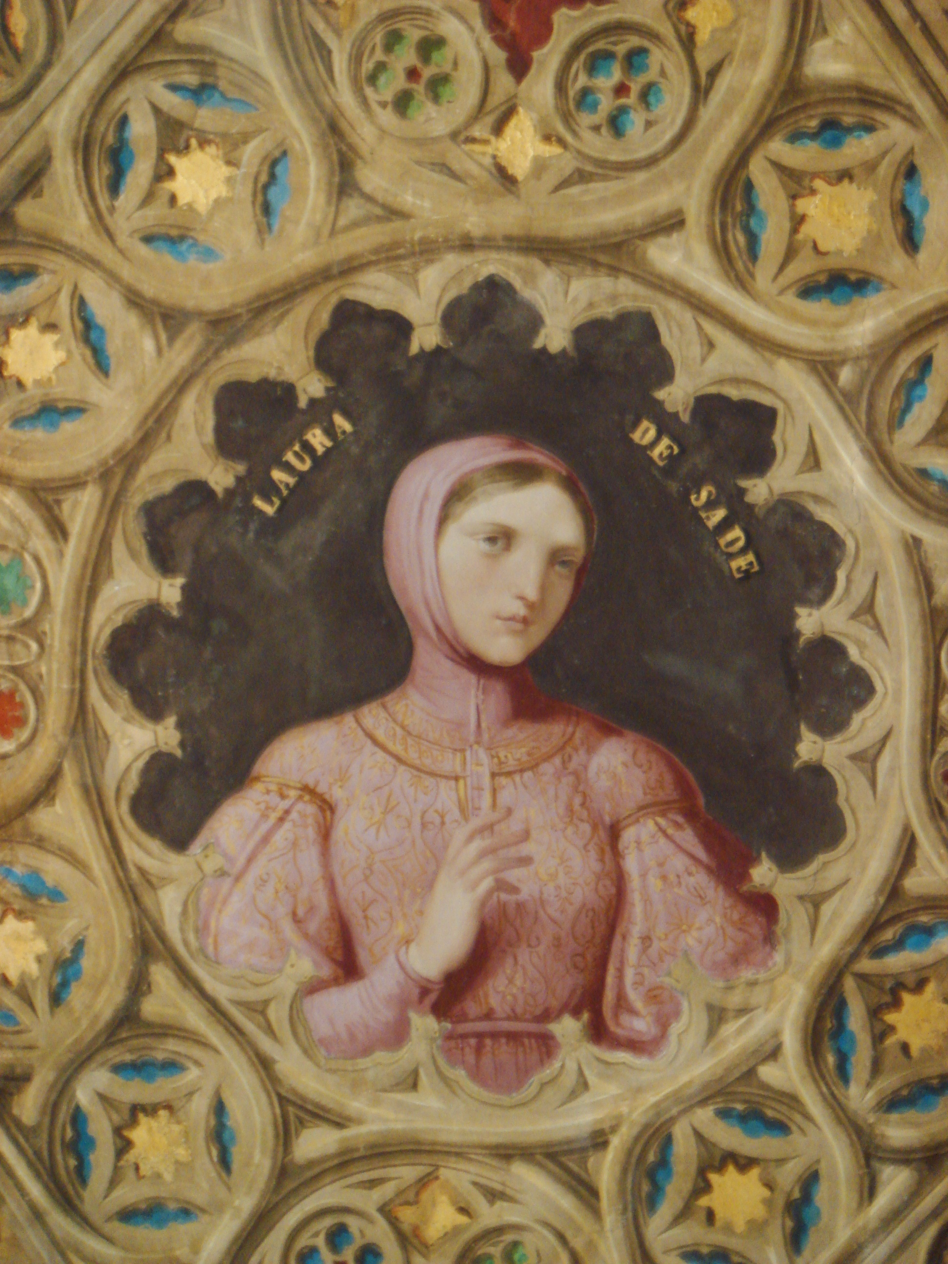 Rome, Italy. .